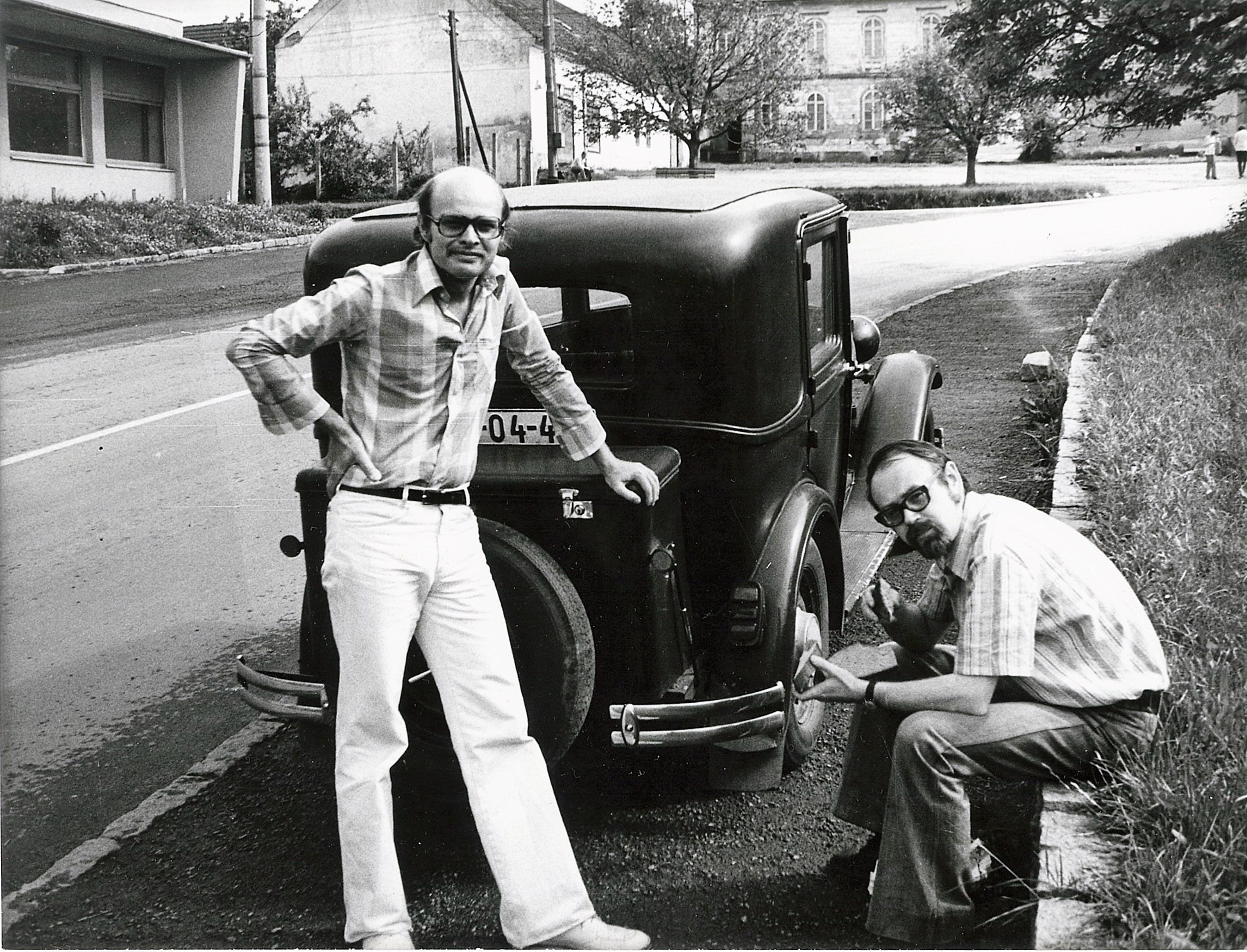 Petr Cincibuch and Jaromír Pelc, 1983.